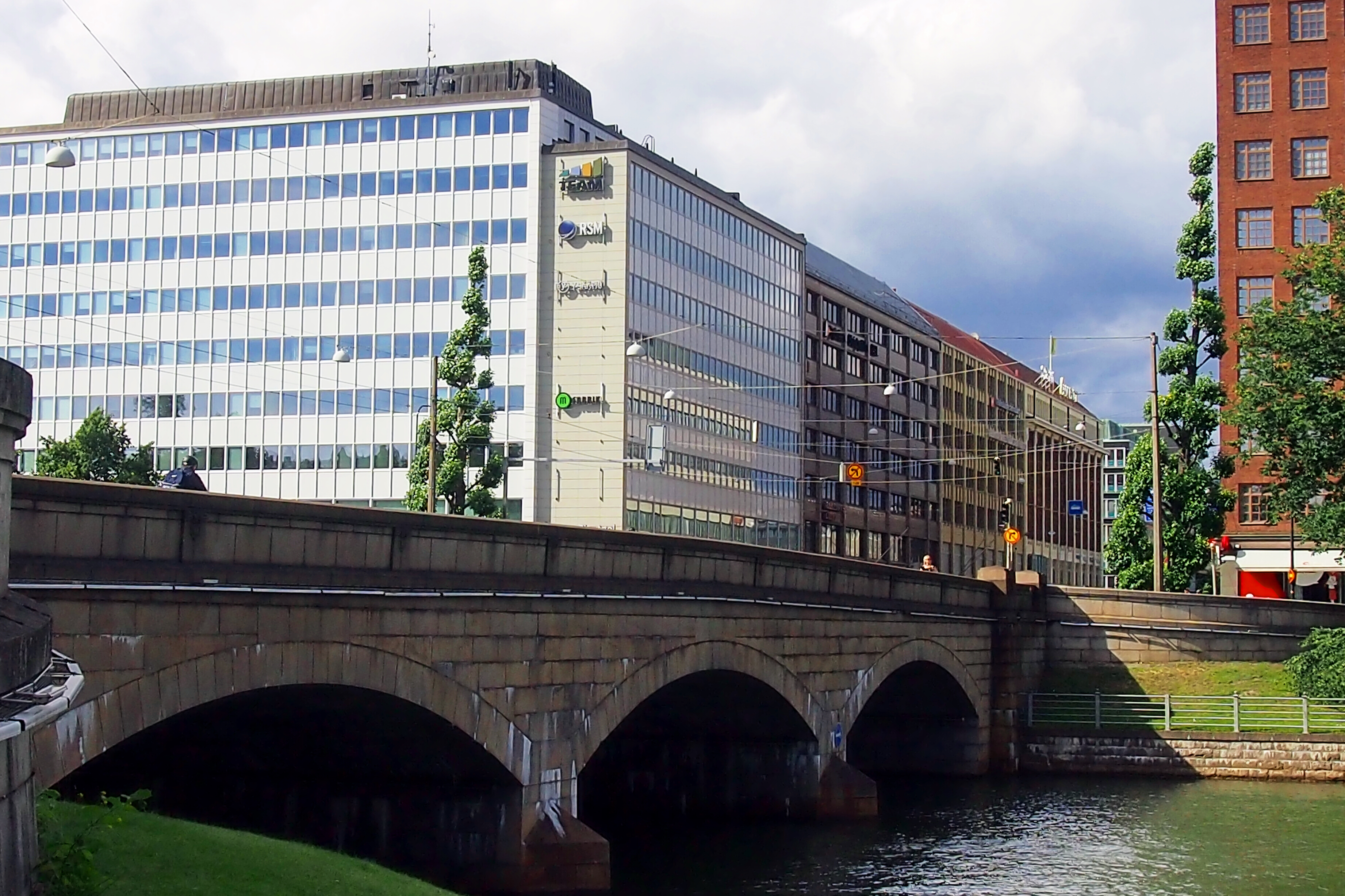 The Bridge Pitkäsilta in Helsinki, Finland.